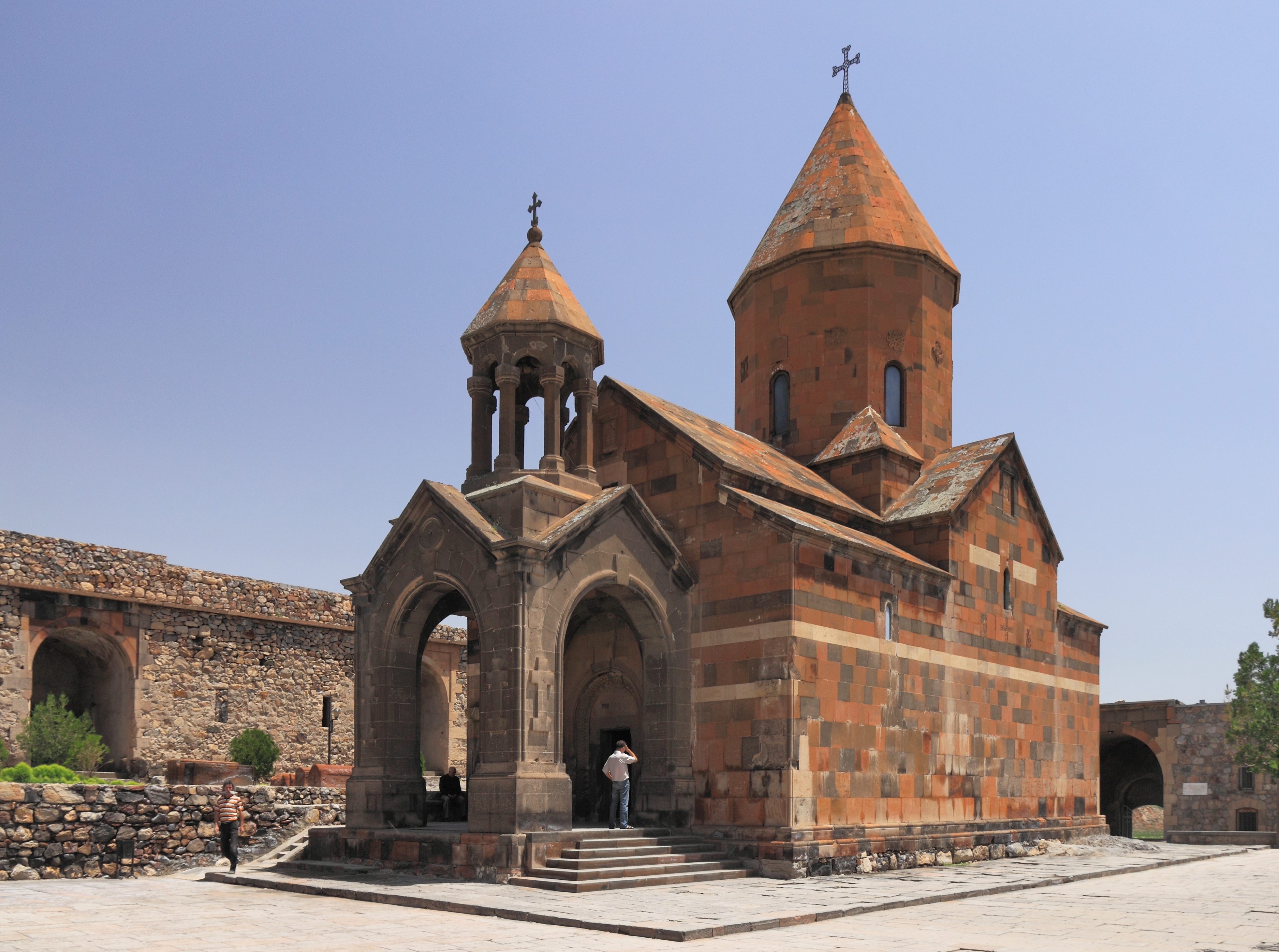 Church of the Holy Mother of God. Khor Virap monastery. Ararat Province, Armenia.